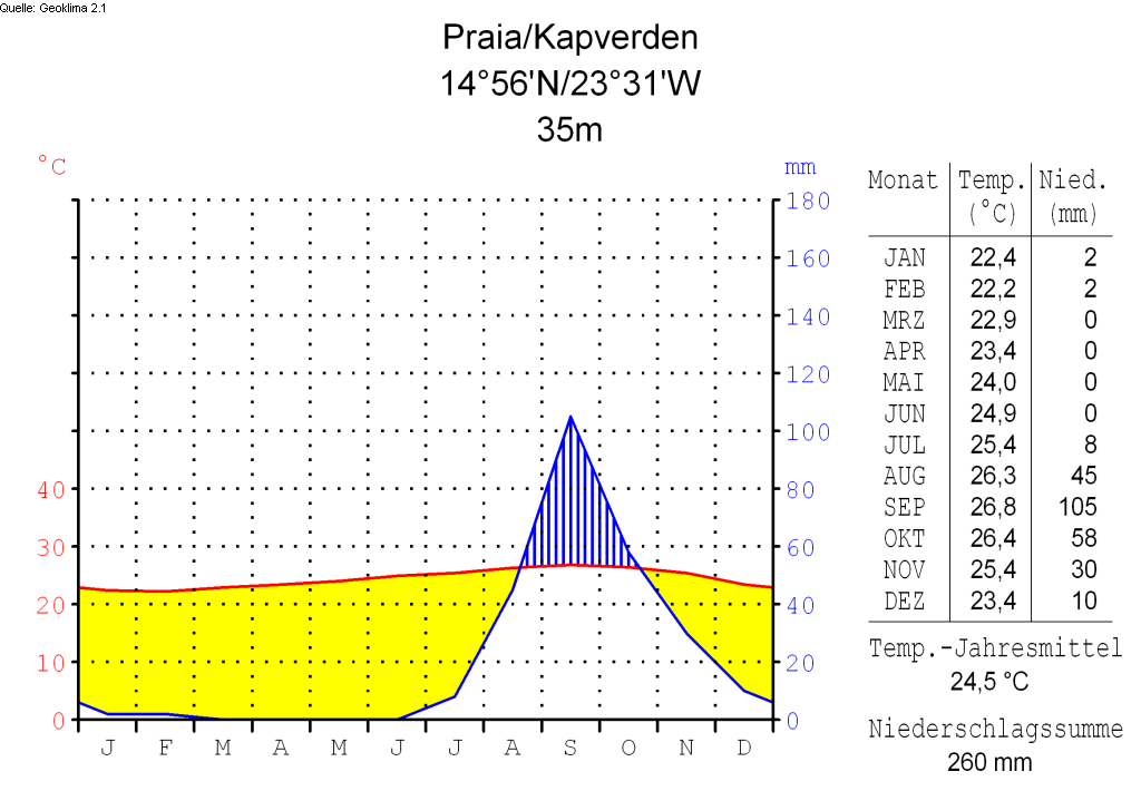 climate chart in the format by Walter and Lieth, metric, °Celsisus and millimeters, made with Geoklima 2.1